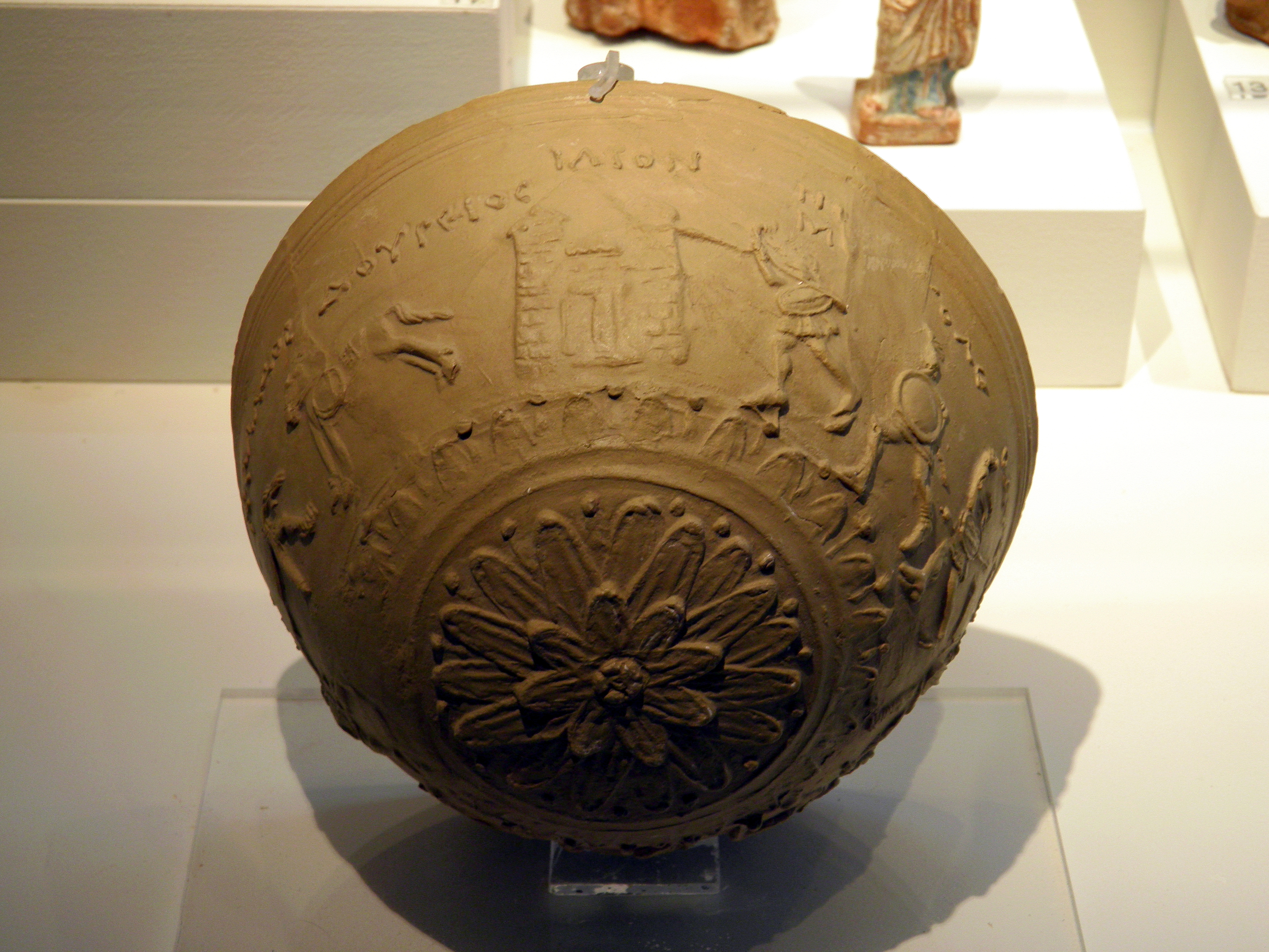 The wall city, the Trajan horse, and heroes of the Trojan War, including Odysseus, Neoptolemos, Diodemes, Ajax are depicted. Children were taught Homer's epics, which had a huge impact on Macedonian society.